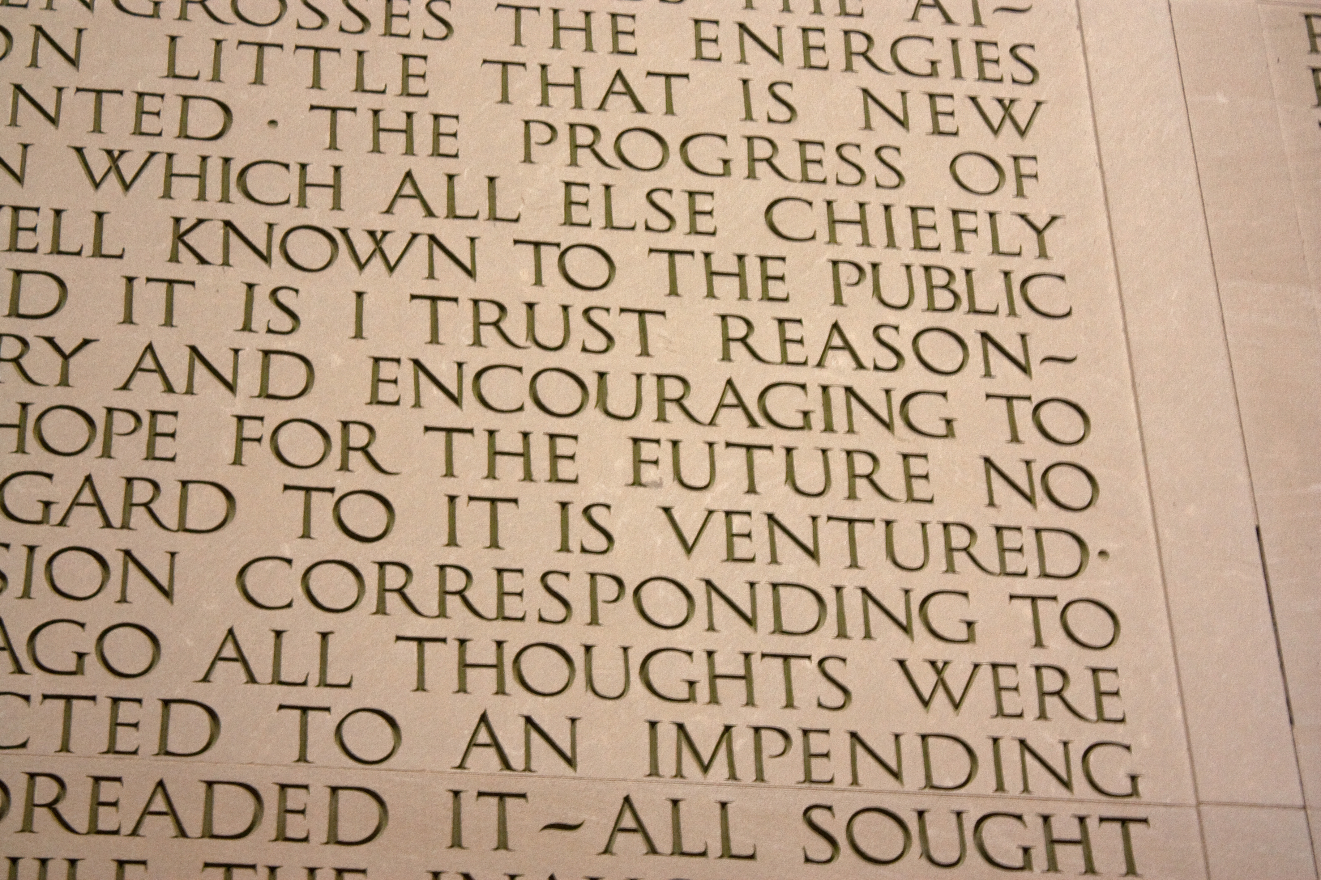 Highlight of an inscription mistake in the Lincoln Memorial. The inscription is the Abraham Lincoln 1865 presidential inauguration speech. The F in the word "FUTURE" in the middle of the photograph was originally carved as an E, and was later repaired.